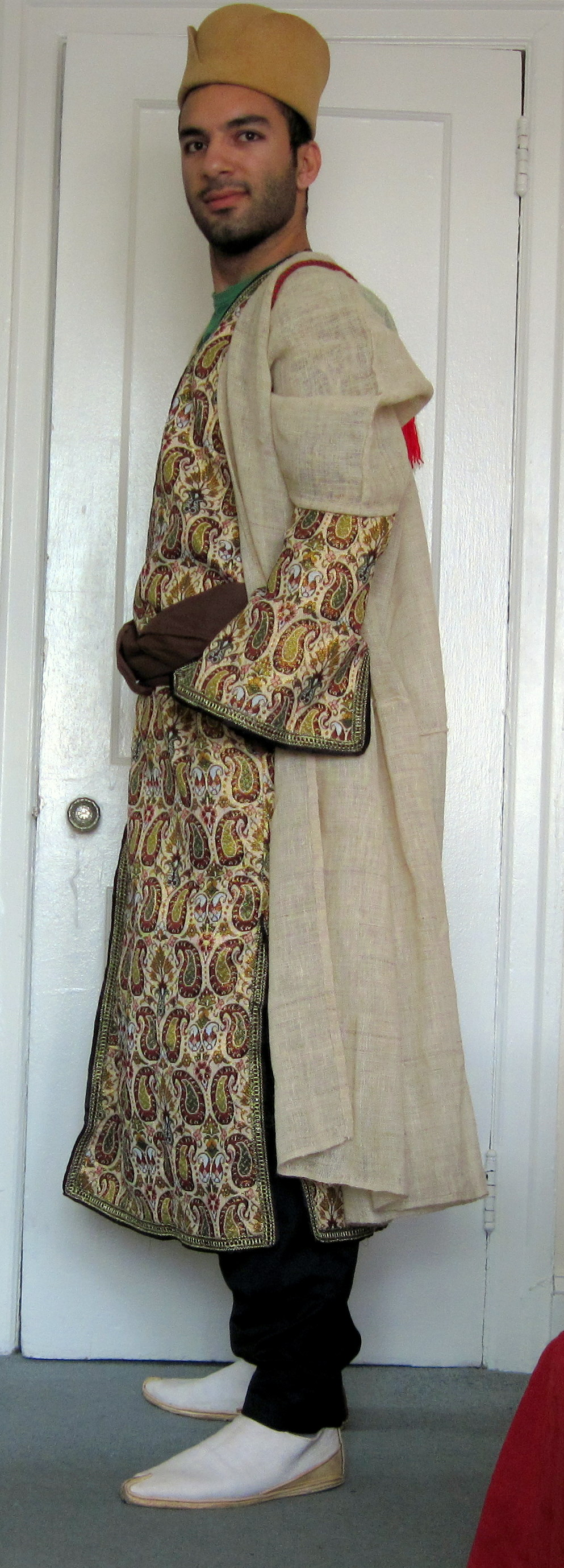 Qashqai clothing on a man, including the hat and the shoes. With all the details on the dress, this choice of clothing would mostly be for special occasions. The trousers provide comfortable mobility.